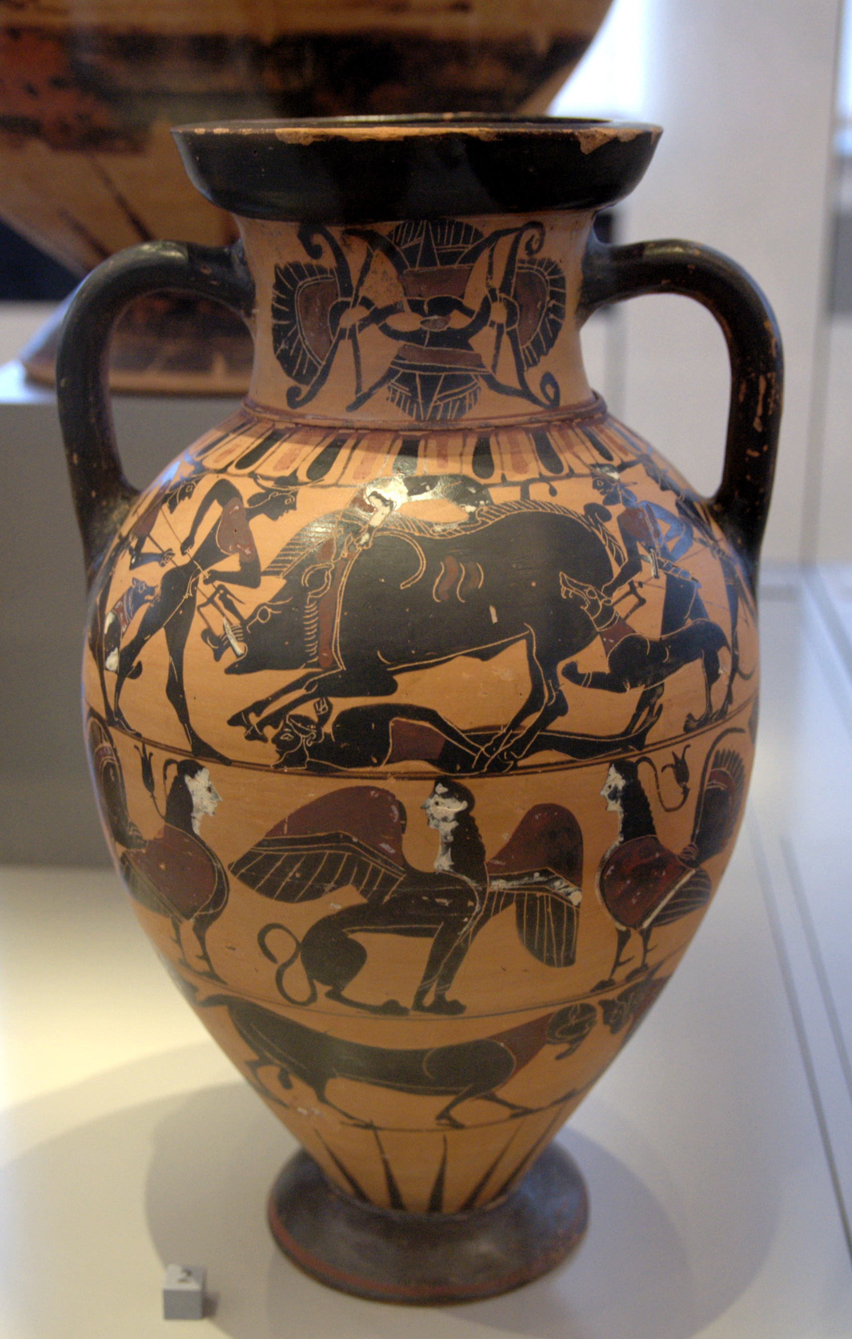 Hunt of the Calydonian Boar (?). Animal frieze. Side A of an Attic black-figure neck-amphora, ca. 560 BC. From South Etruria.